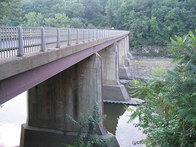 Turners Falls Road Bridge, Massachusetts from the south end. The Connecticut River (United States) is clearly not flowing very much at the time the image was taken.